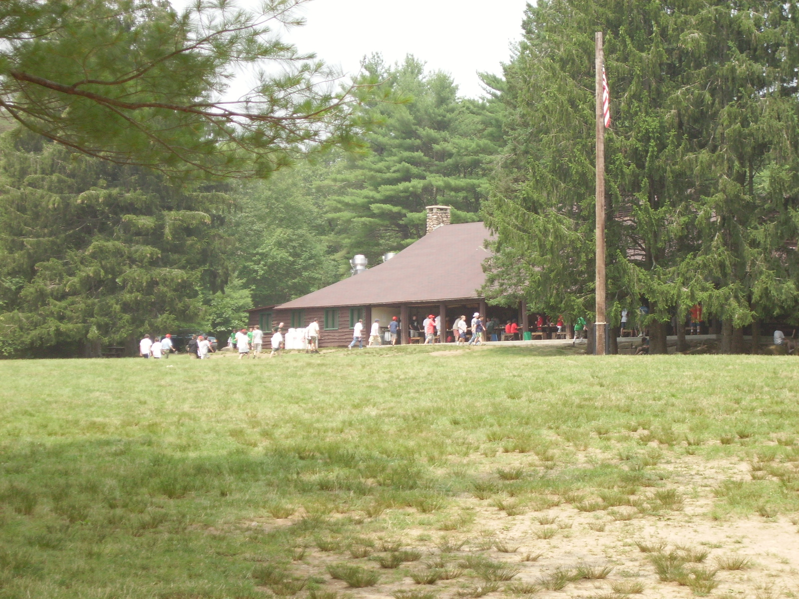 Camp Yawgoog